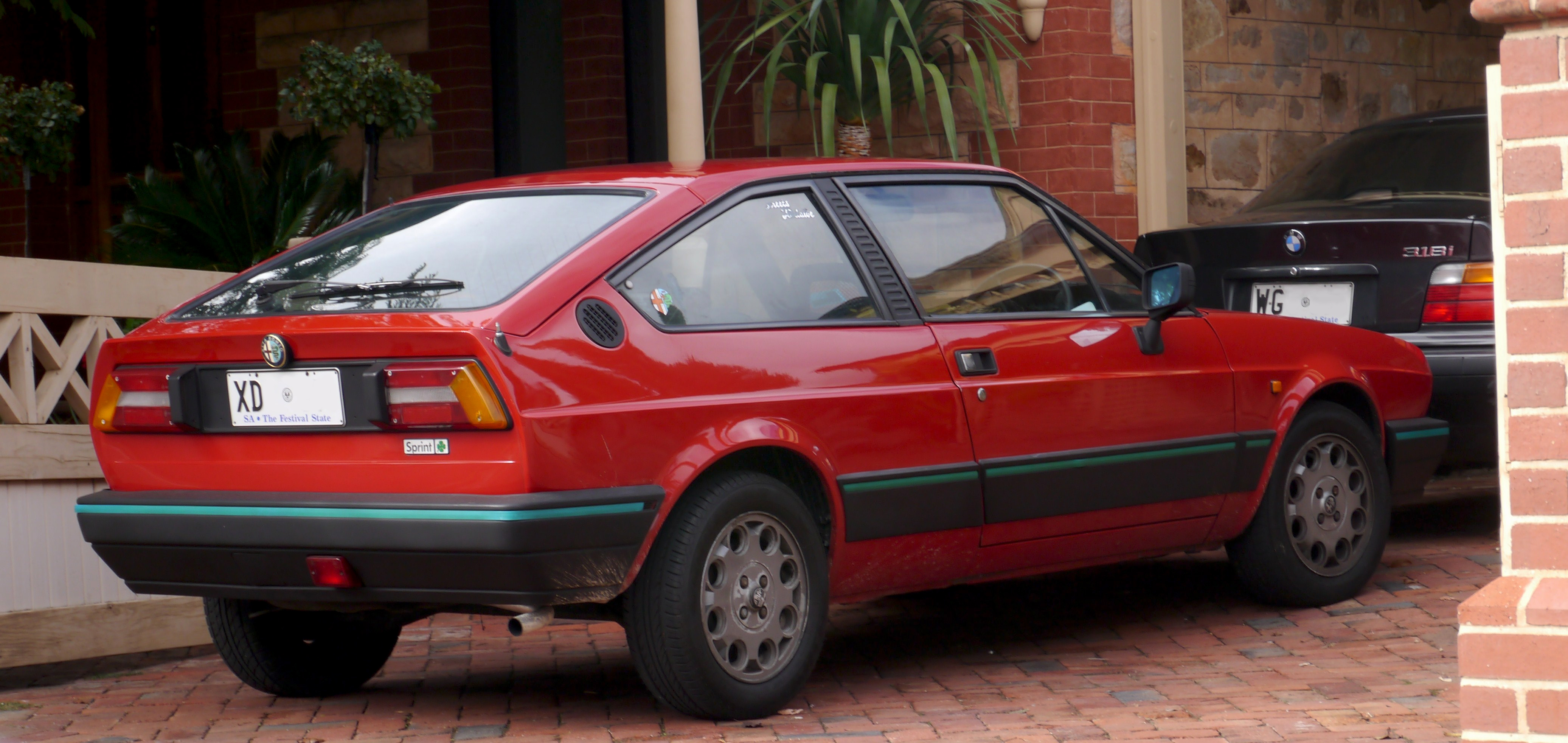 It was great to see a nice tidy example like this still getting around on the roads here, was a nice surprise!